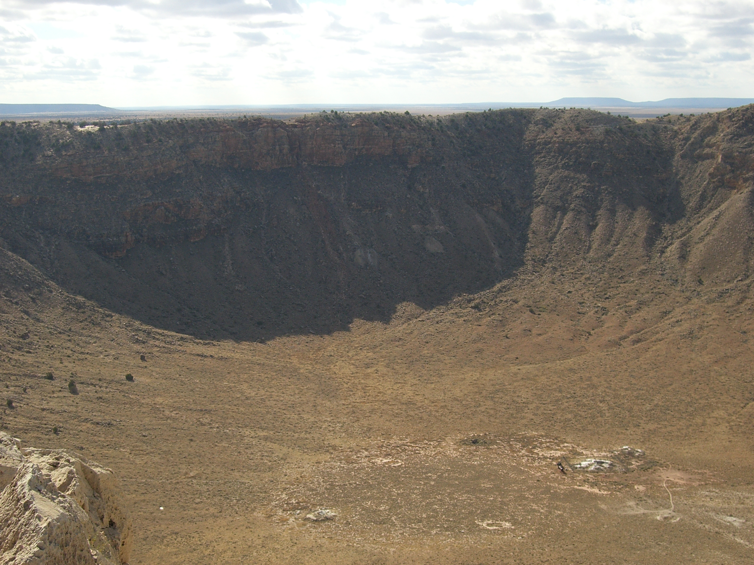 Meteorite crater next to Winslow in Utah, USA